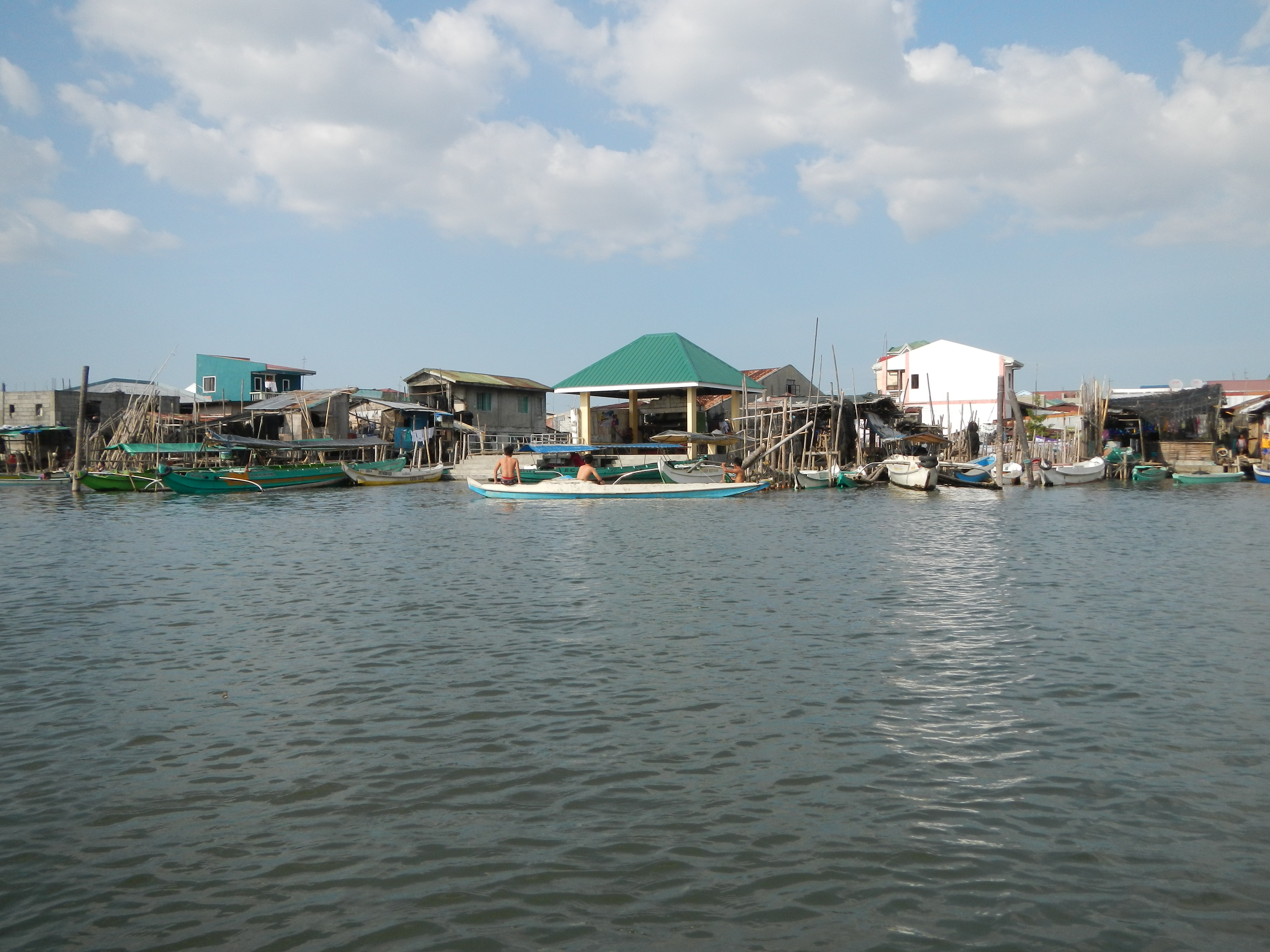 Barangay Binuangan, Obando, Bulacan - (an island surrounded by the Paliwas-Binuangan-Salambao-Obando, Bulacan River part of the Marilao-Meycauayan-Obando River (MRS), Fishing boats in the Philippines in its Wharf or small port and harbour to the Laureano R. Marquez Municipal Fish Port in the Obando Public Market at Paliwas, Obando, Bulacan).